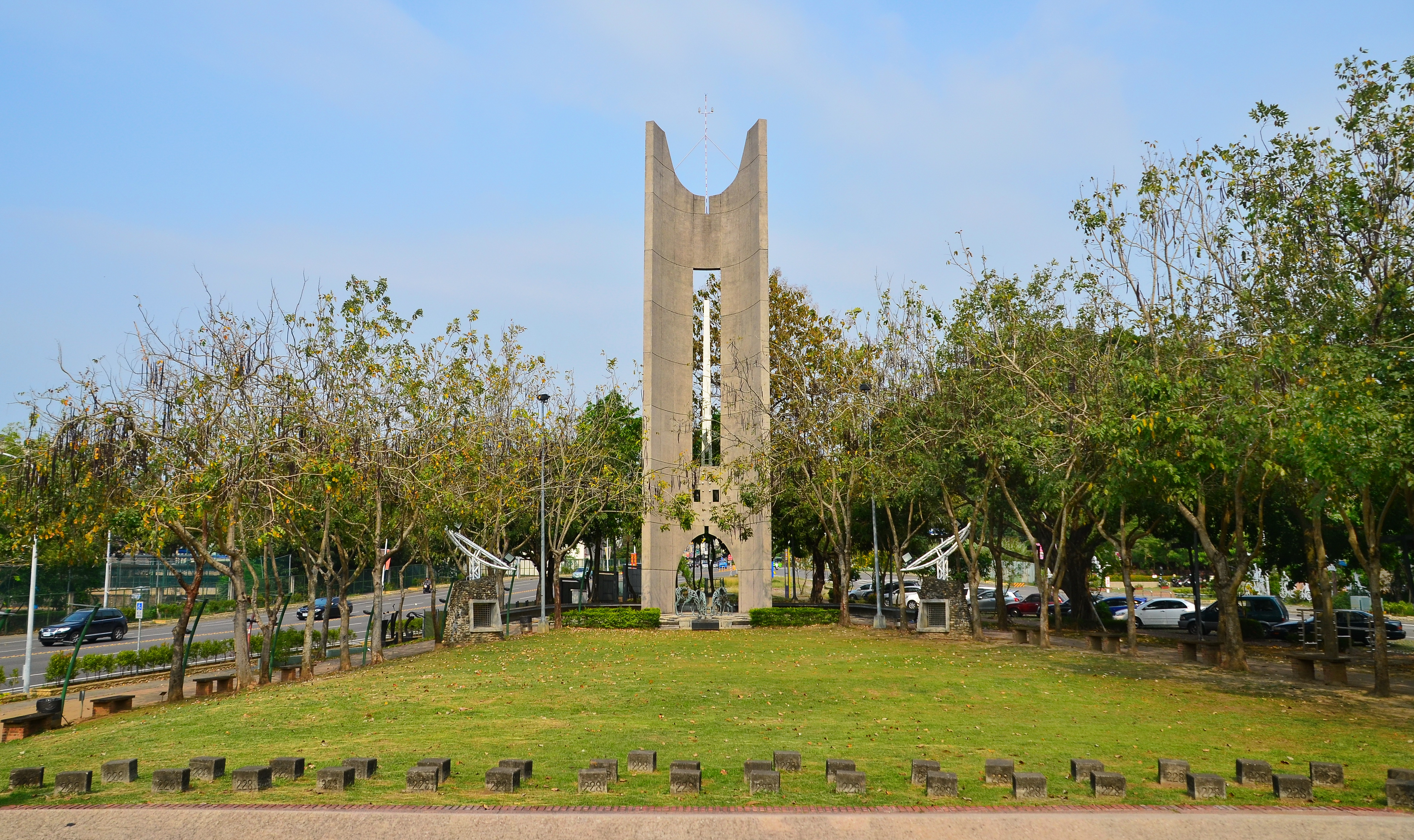 228 Memorial Park, Chiayi City, Taiwan.